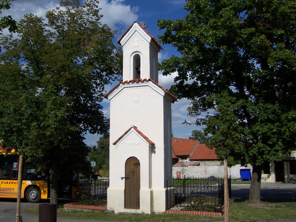 Sibřina